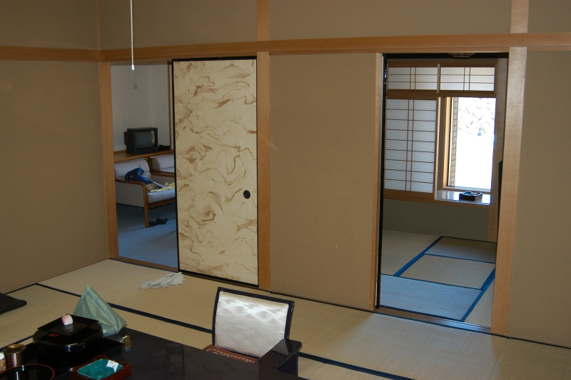 Use of tatami in a modern hotel room. Unazuki, Japan.